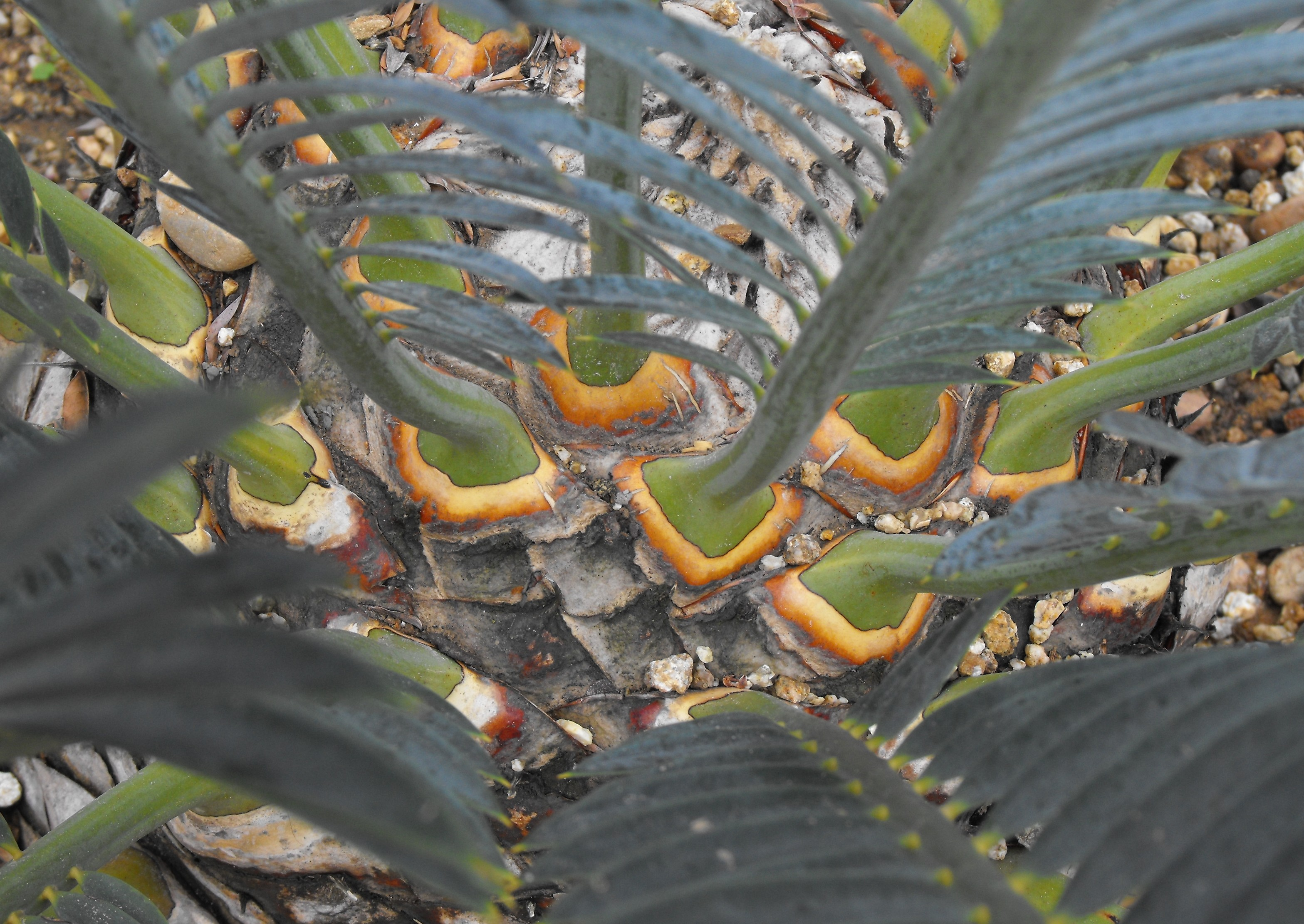 Encephalartos lehmannii at the San Diego Zoo, California, USA. Identified by sign.